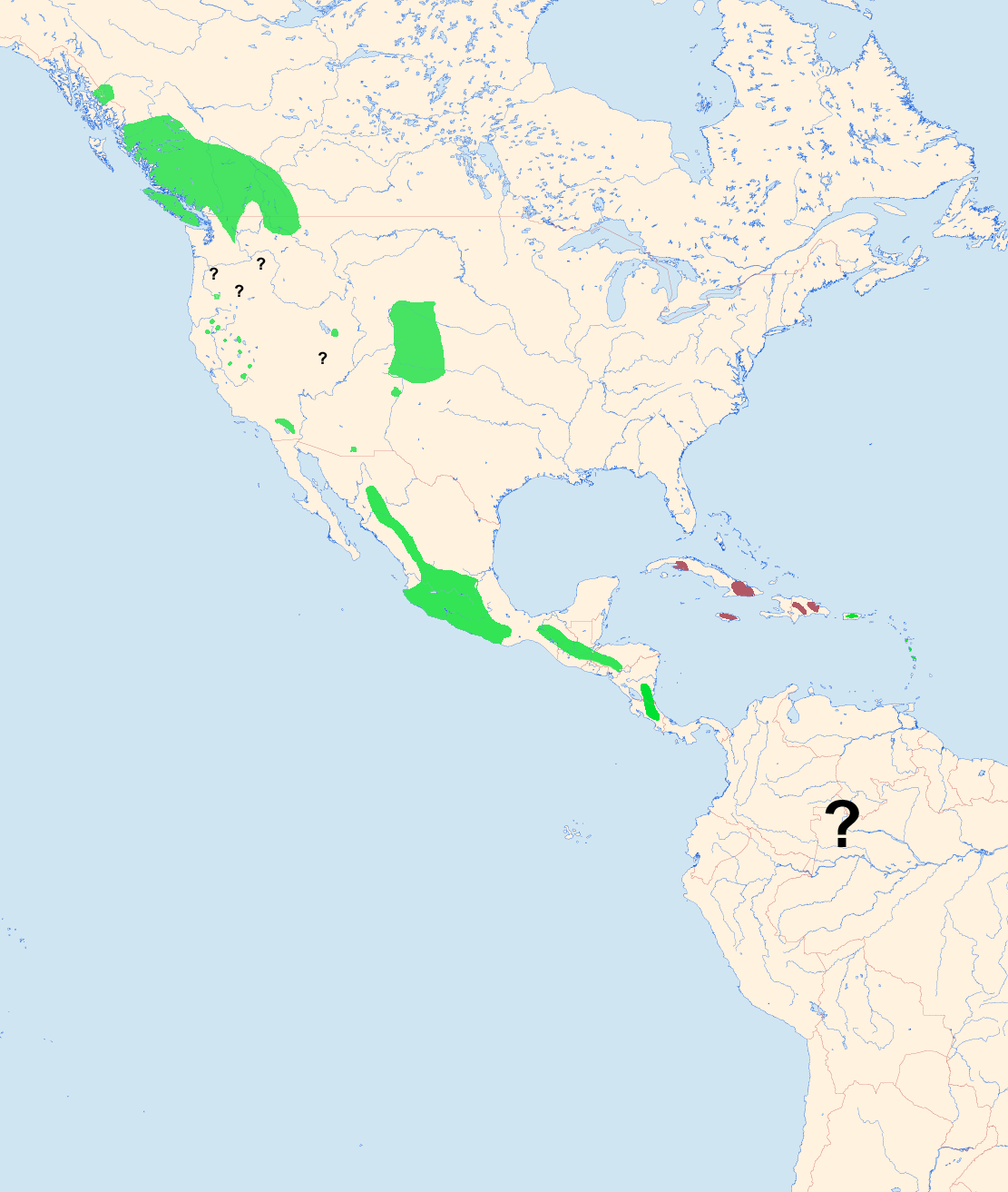 Distribution of Black Swift (Cypseloides niger). Breeding range: green; Resident rage: red. Data Sources: David A. Wiggins: Black Swift (Cypseloides niger): A Technical Conservation Assessment. USDA Forest Service, Rocky Mountain Region, 2004 Peter E. Lowther, Charles T. Collins: Black Swift (Cypseloides niger). In: A. Poole: The Birds of North America Online. Cornell Lab of Ornithology, Ithaca 2002 ( Phil Chantler, Gerald Driessens: A Guide to the Swifts and Tree Swifts of the World. Pica Press, Mountfield 2000, ISBN 1-873403-83-6